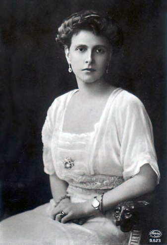 Postcard of Princess Alice of Battenberg shortly after her marriage to Prince Andrew of Greece (Black & White original version)